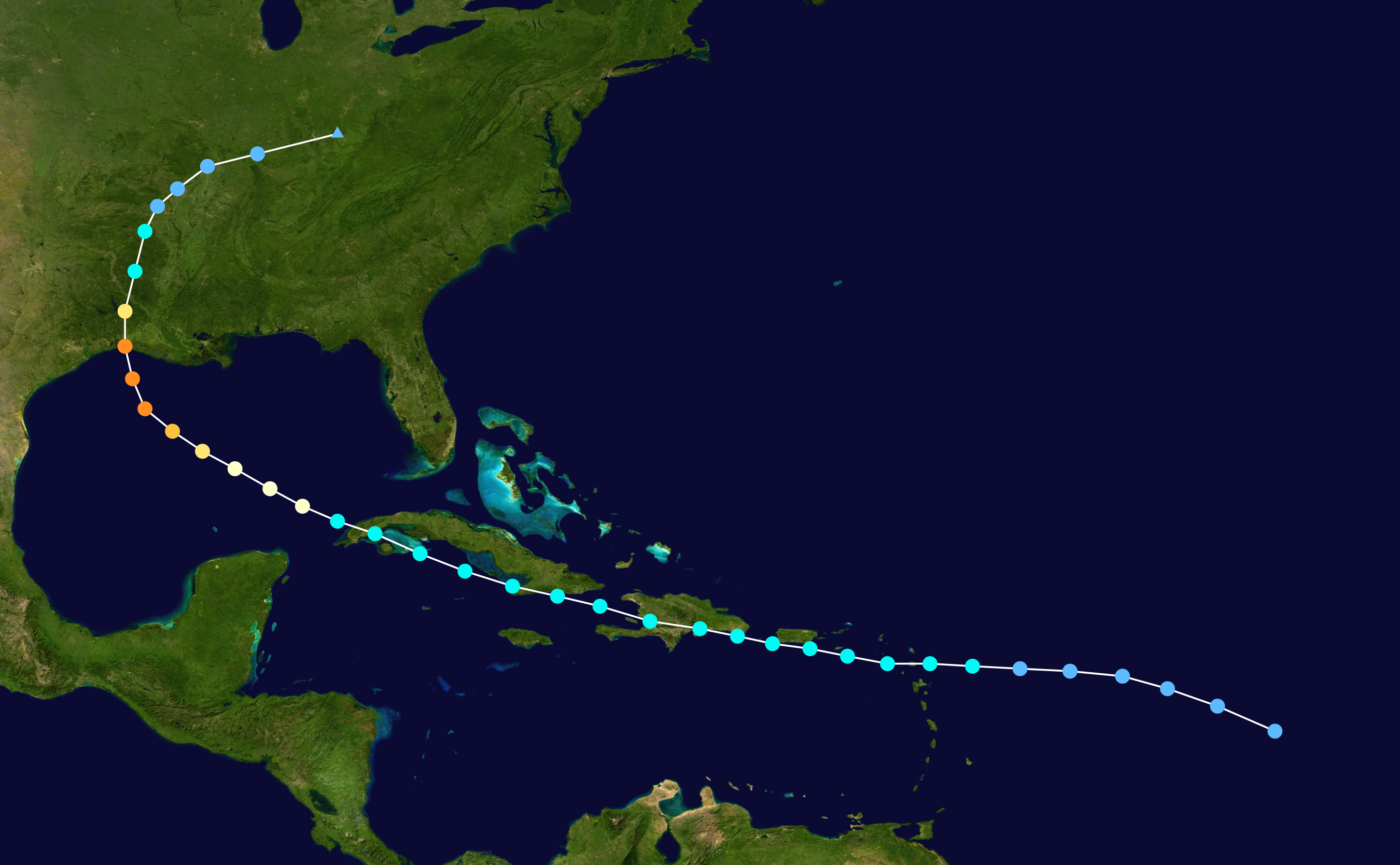 Track map of Hurricane Laura of the 2020 Atlantic hurricane season. The points show the location of the storm at 6-hour intervals. The colour represents the storm's maximum sustained wind speeds as classified in the Saffir–Simpson scale (see below), and the shape of the data points represent the nature of the storm, according to the legend below. Saffir–Simpson scale Tropical depression≤38 mph≤62 km/h Category 3111–129 mph178–208 km/h Tropical storm39–73 mph63–118 km/h Category 4130–156 mph209–251 km/h Category 174–95 mph119–153 km/h Category 5≥157 mph≥252 km/h Category 296–110 mph154–177 km/h Unknown Storm type Tropical cyclone Subtropical cyclone Extratropical cyclone / Remnant low / Tropical disturbance / Monsoon depression